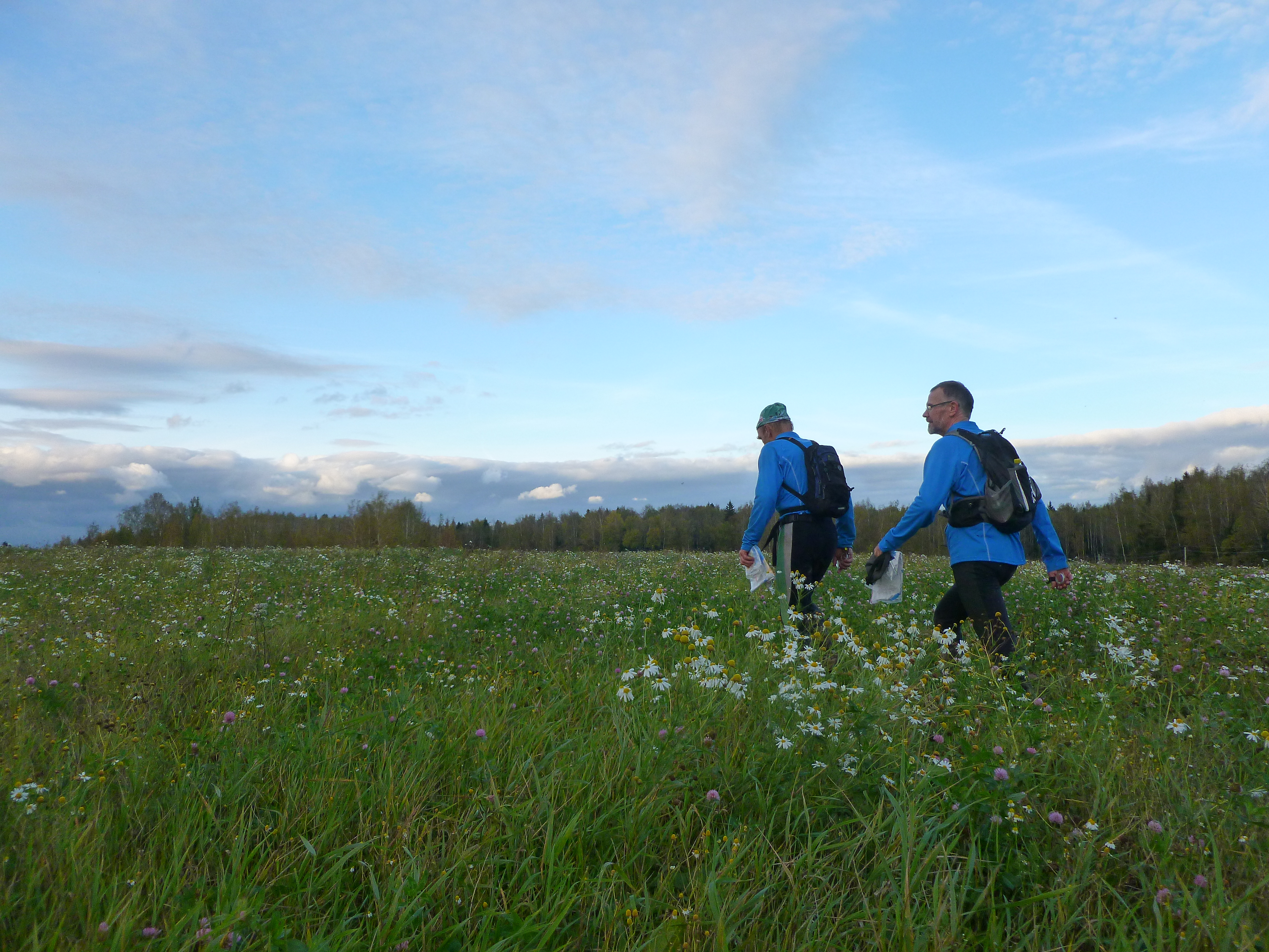 Team at course on «MSU rogaine 2012». 29 September 2012, Russia, Moscow Oblast, Dmitrovsky District, Iksha.